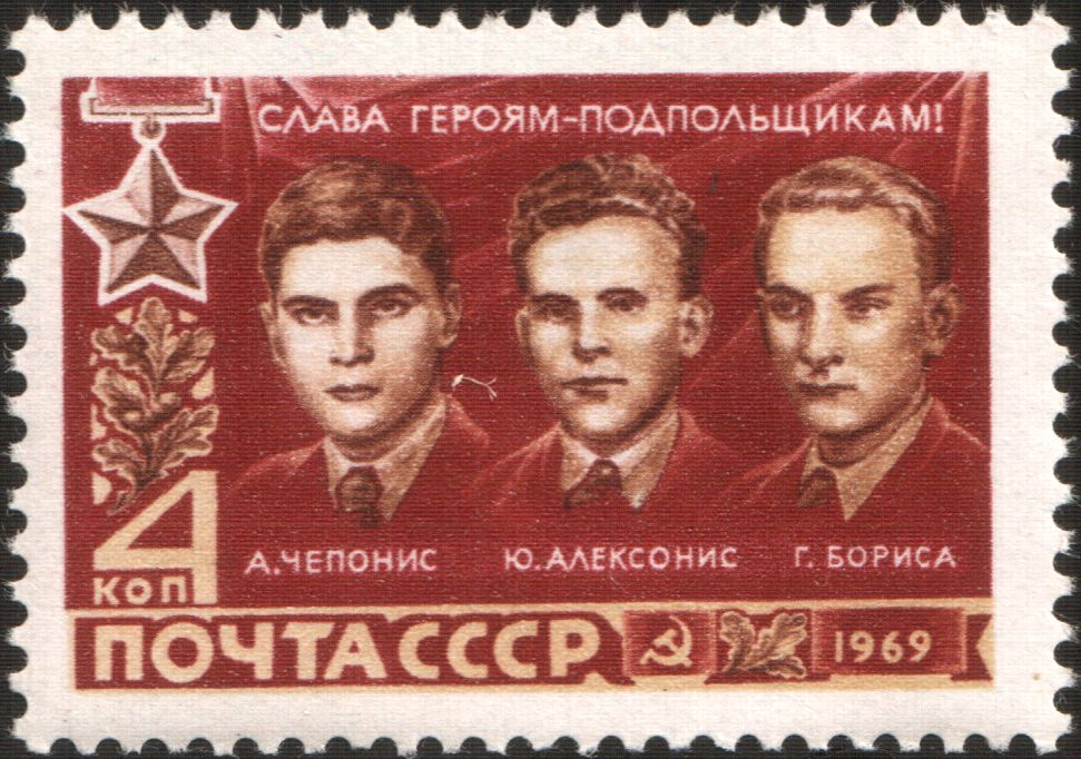 USSR stampː Alfonsas Ceponis, Juozas Aleksonis and Hubertas Borisa. Seriesː Heroes of Great Patriotic War 1941-1945